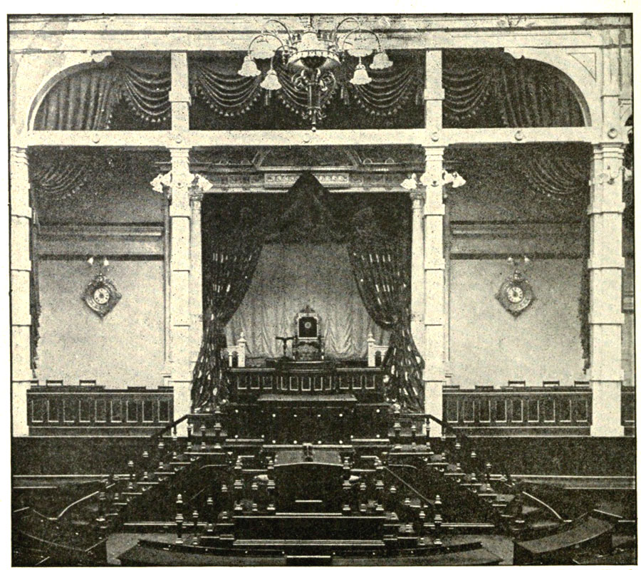 The Emperor's Throne in the Japanese House of Peers, at Tokyo